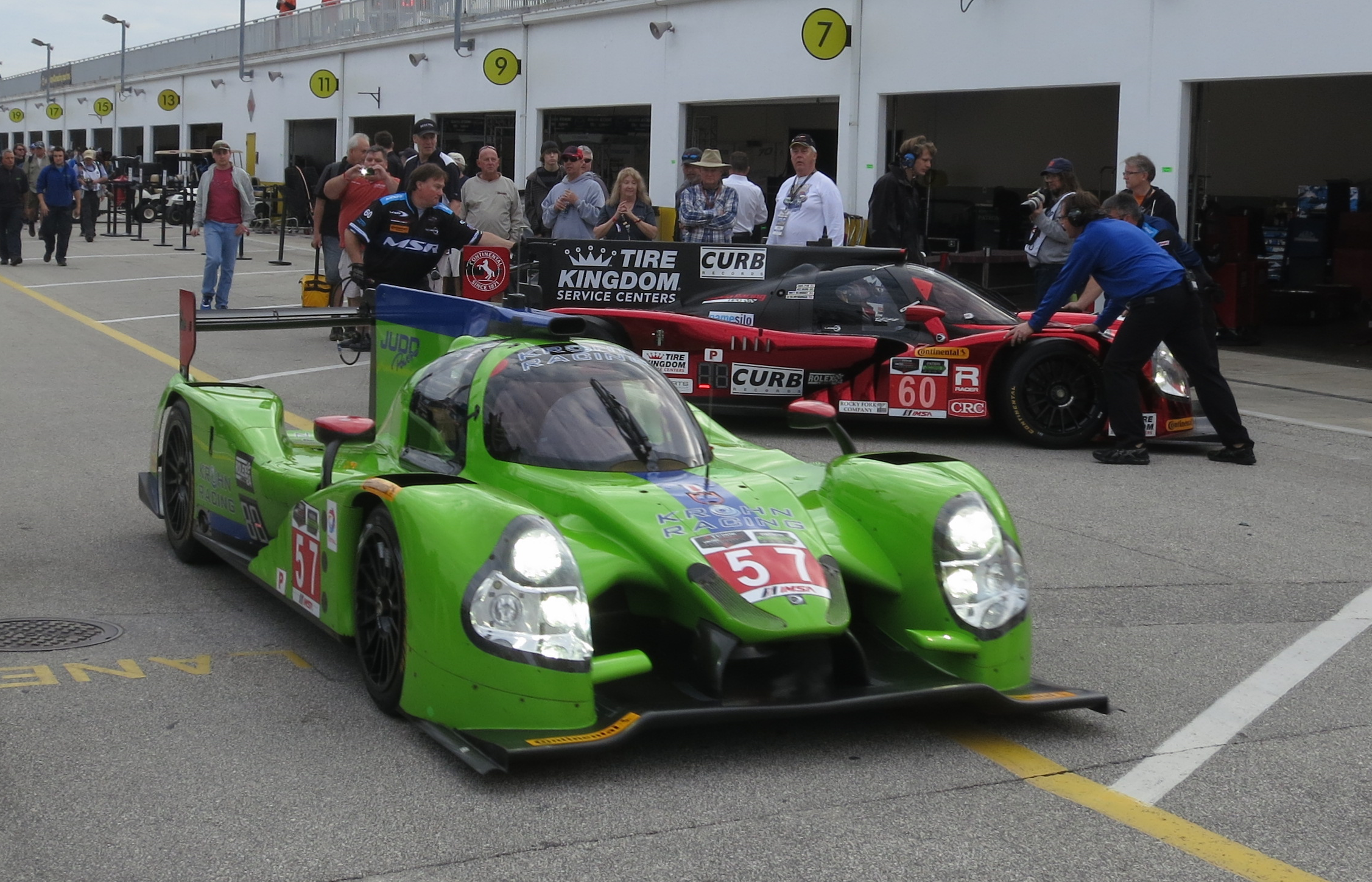 The Krohn Racing Ligier JS P2-Judd in front of the Michael Shank Racing Ligier JS P2-Honda at the 2015 Rolex 24 at Daytona